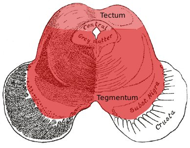 Diagrammatic axial view of midbrain showing the upper tectum and lower tegmentum